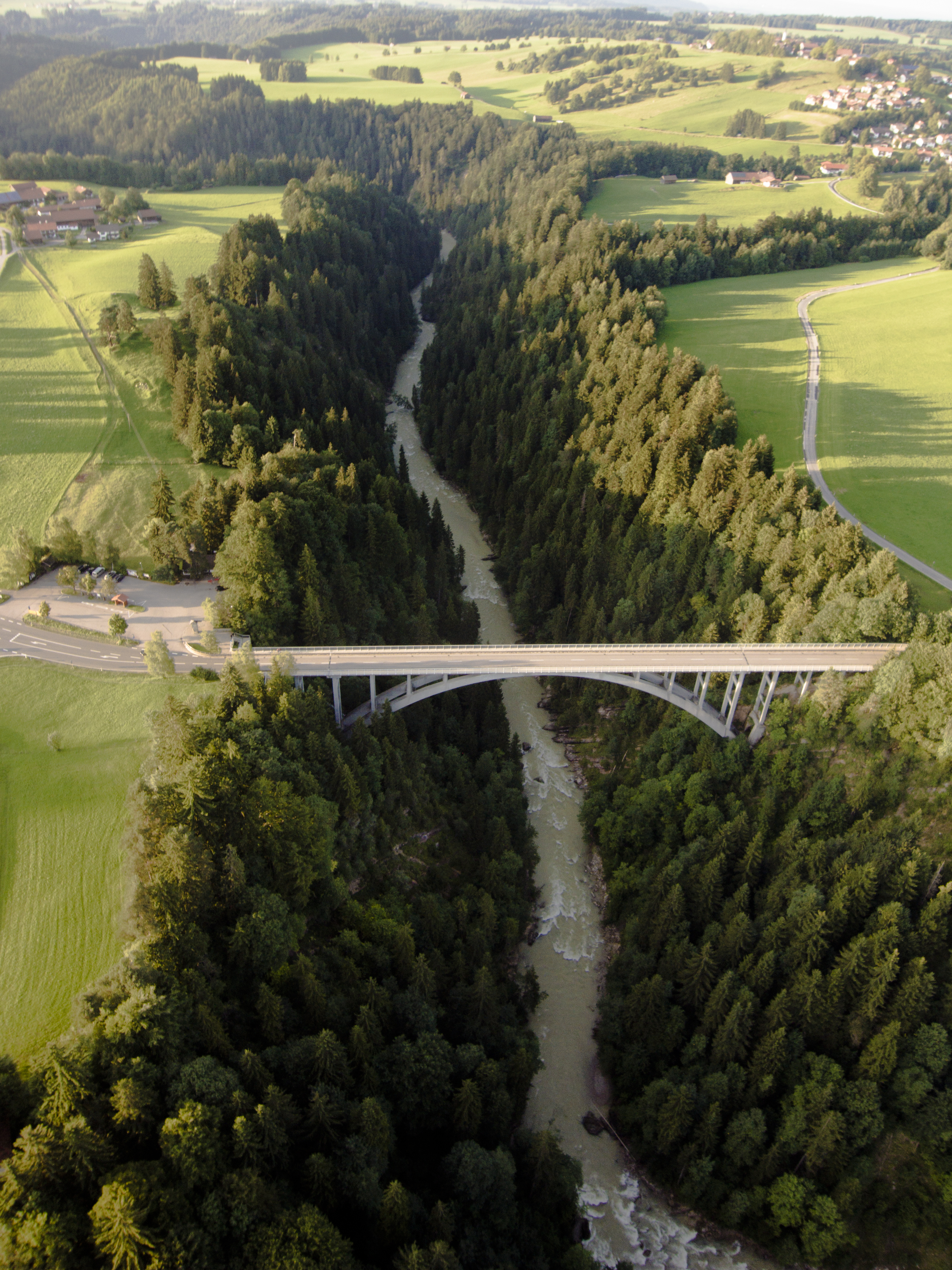 Valley of the Bavarian river Ammer with the Echelsbacher Brücke (bridge), near Bad Bayersoien (district Garmisch-Partenkirchen) and Rottenbuch (district Weilheim-Schongau), seen northwards from a hot air balloon)